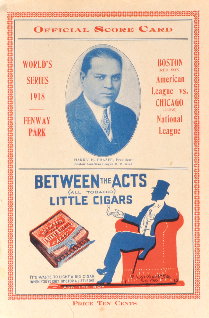 A program from the 1918 World Series, depicting Harry Frazee, president of the Red Sox.